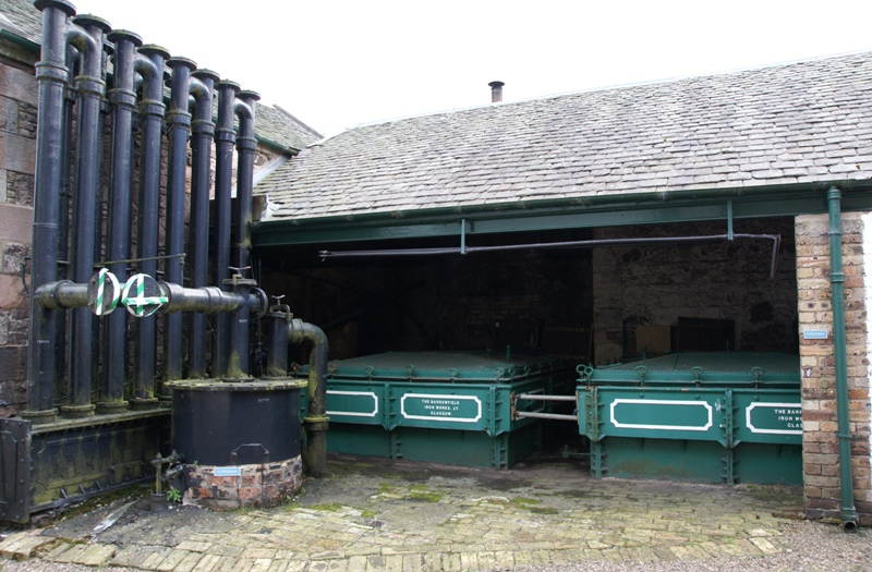 Biggar Gasworks Museum, South Lanarkshire, Scotland - condersor and purifiers